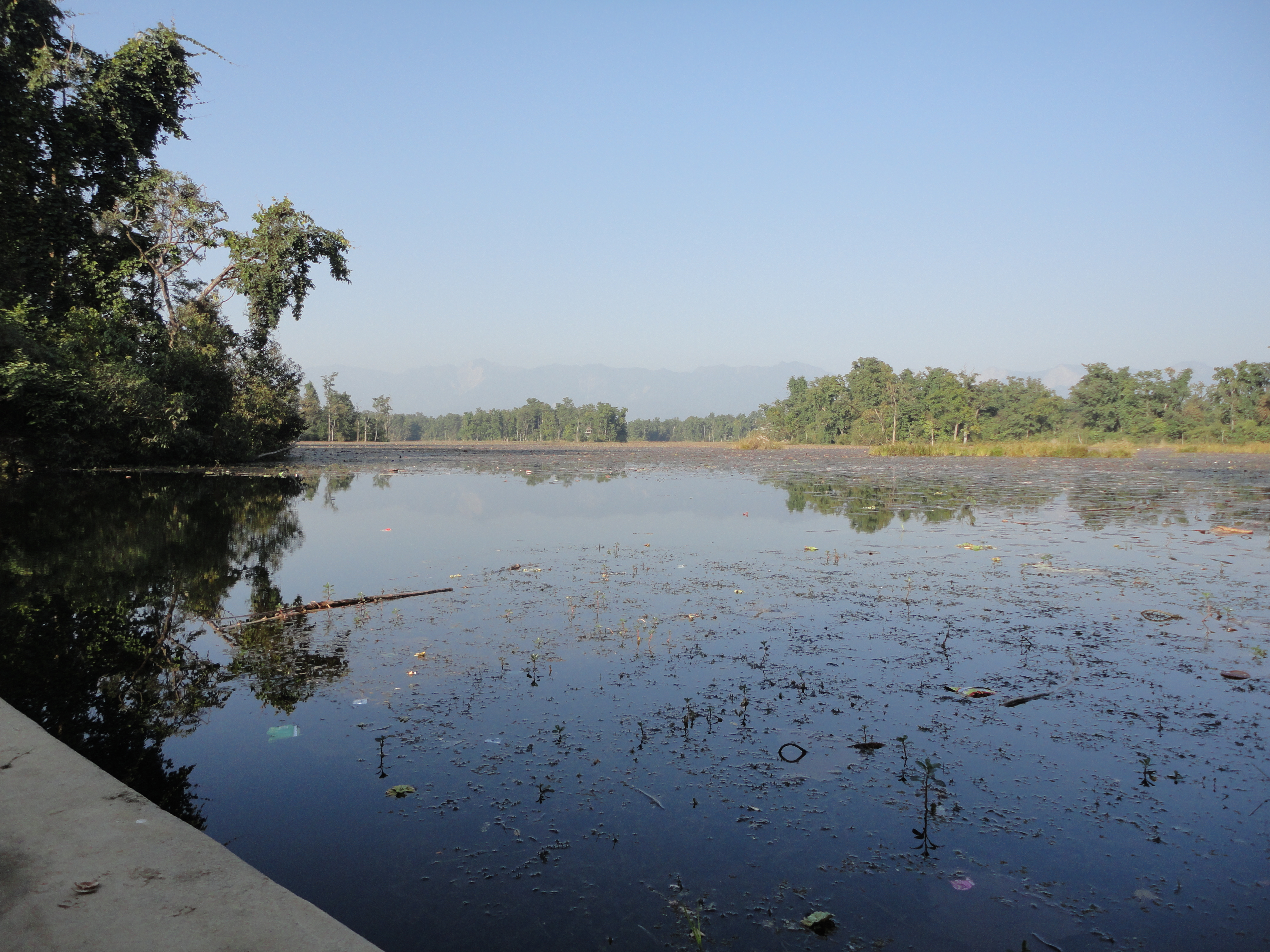 Ghodaghodi Lake in Nepal (view from the west)